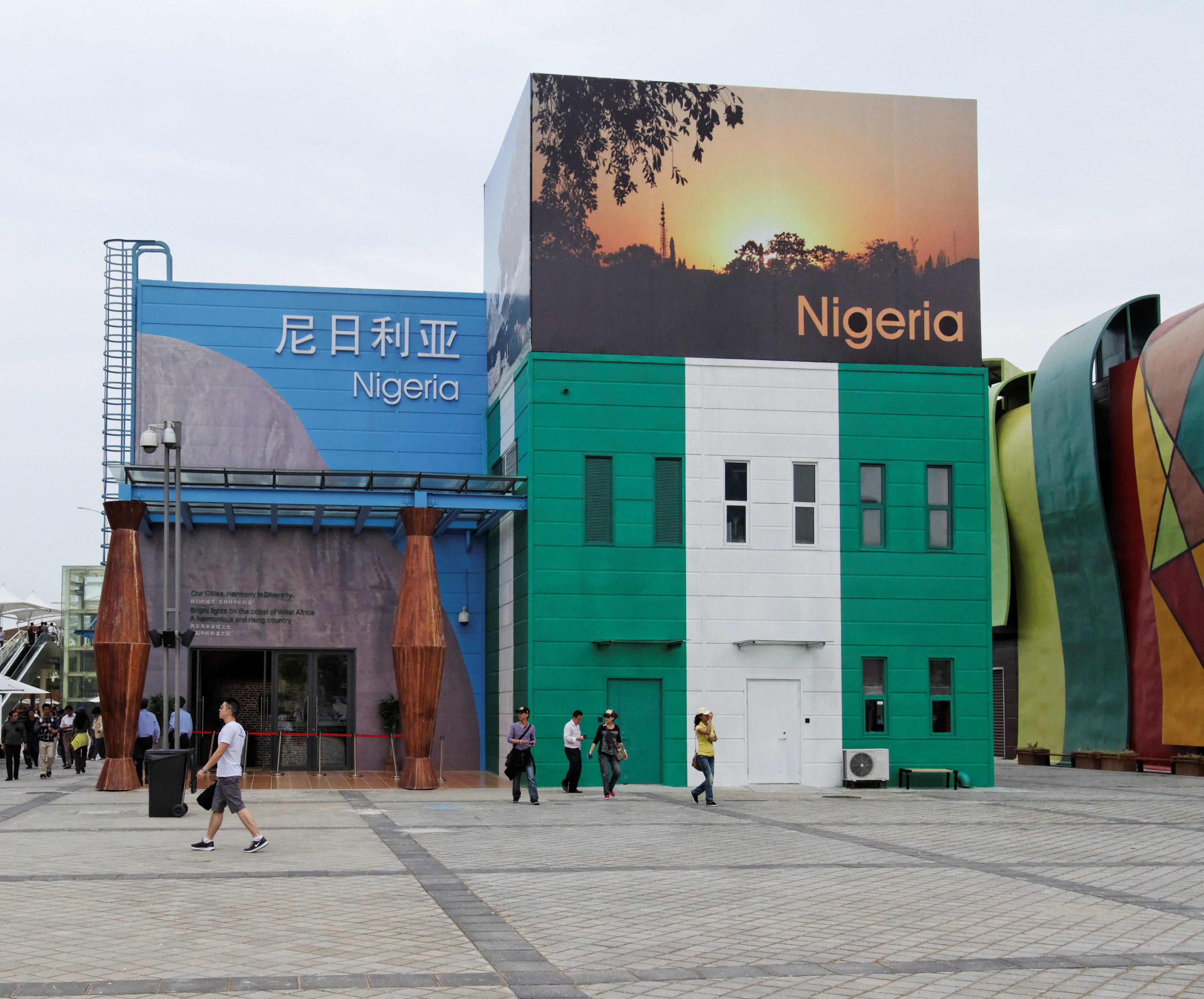 Nigeria Pavilion of Expo 2010